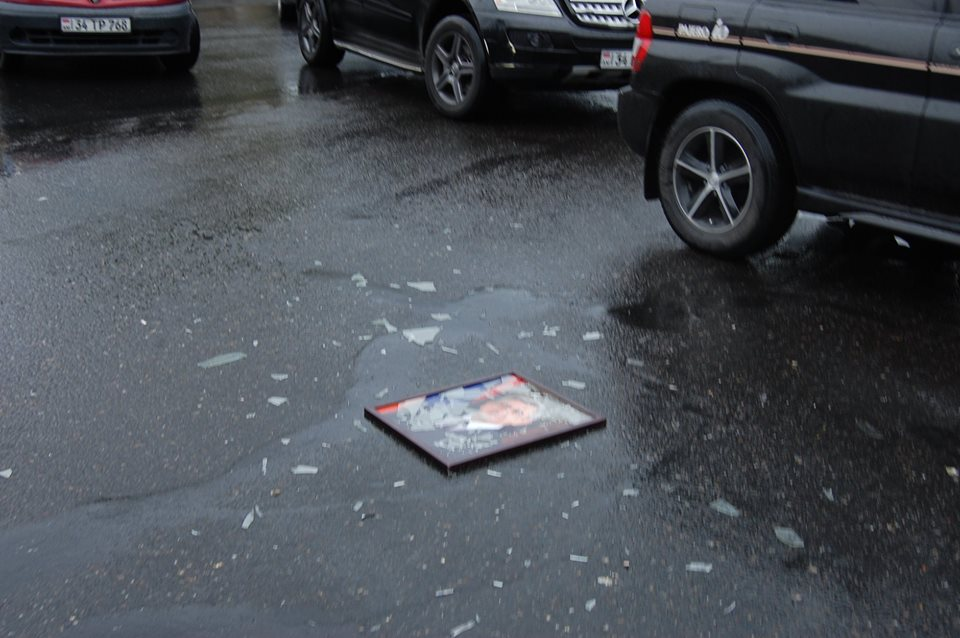 Protest demonstrations